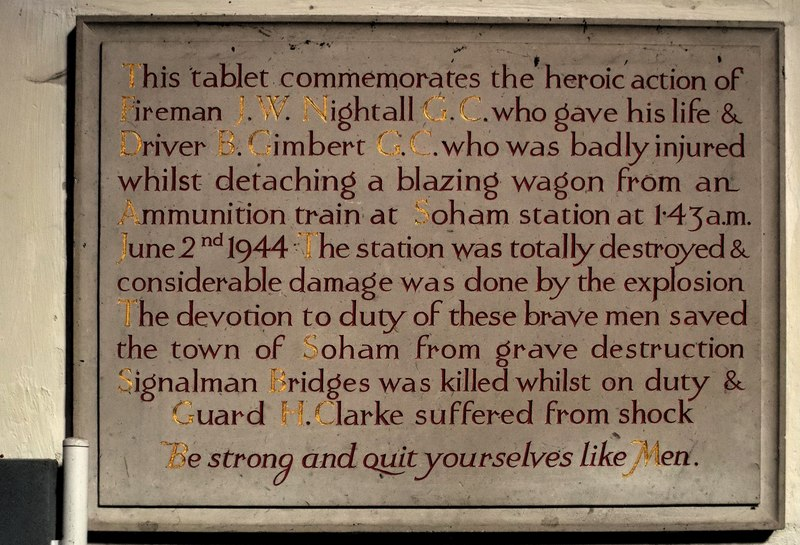 Memorial tablet in St Andrew's Church to James Nightall and Benjamin Gimbert. "This tablet commemorates the heroic action of Fireman J.W. Nightall GC who gave his life and Driver B. Gimbert GC who was badly injured whilst detaching a blazing wagon from an Ammunition train at Soham station at 1:43am June 2nd 1944. The station was totally destroyed & considerable damage was done by the explosion.. The devotion to duty of these brave men saved the town of Soham from grave destruction. Signalman Bridges was killed whilst on duty & Guard H. Clarke suffered from shock."